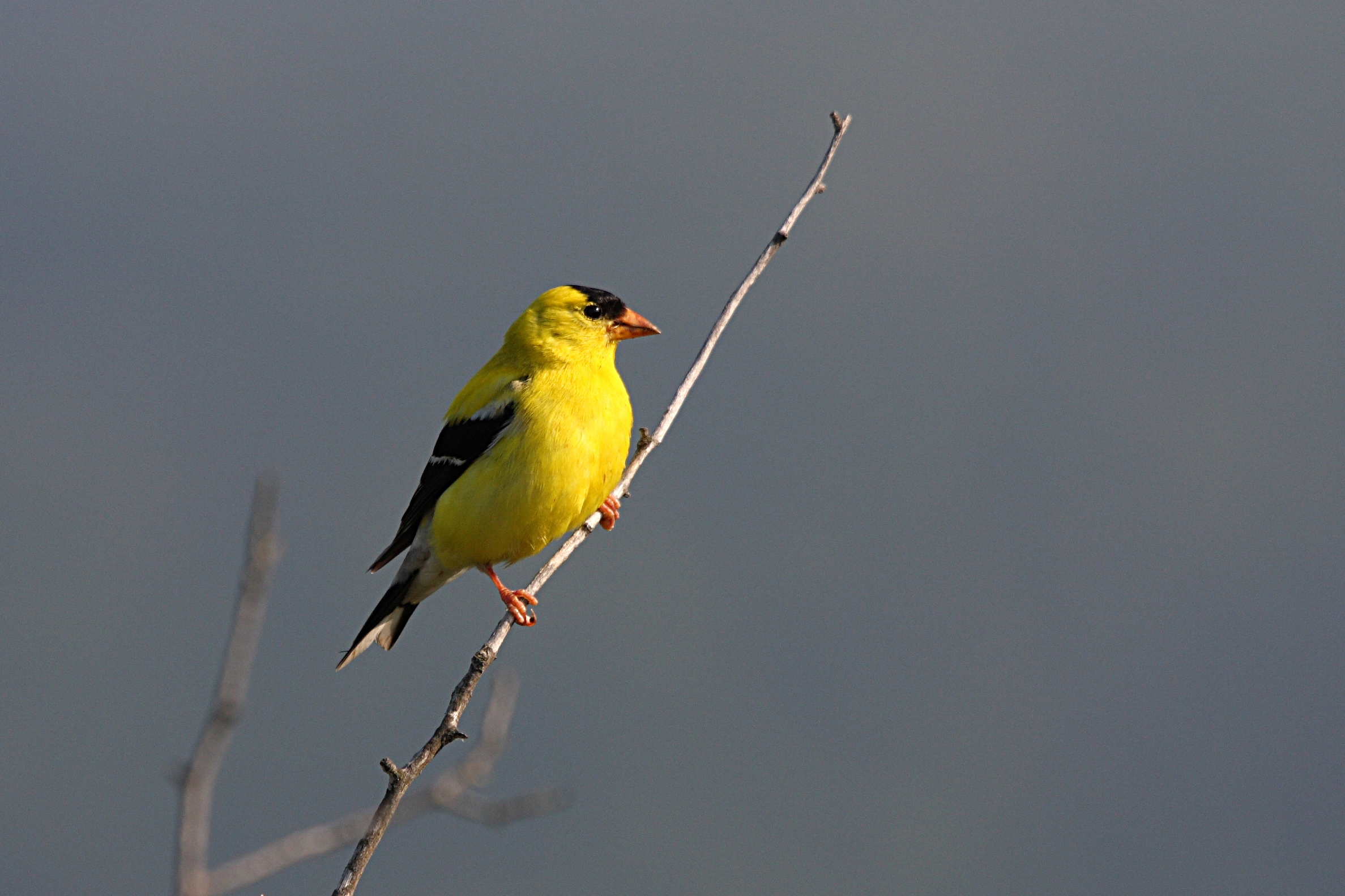 American Goldfinch, Marais des Graves, Saint-Joachim (Cap-Tourmente), Quebec, Canada